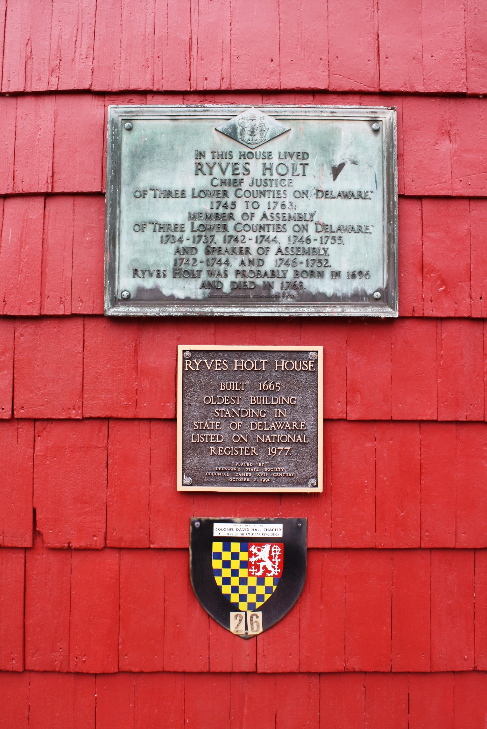 Second and Mulberry Streets in Lewes, Delaware